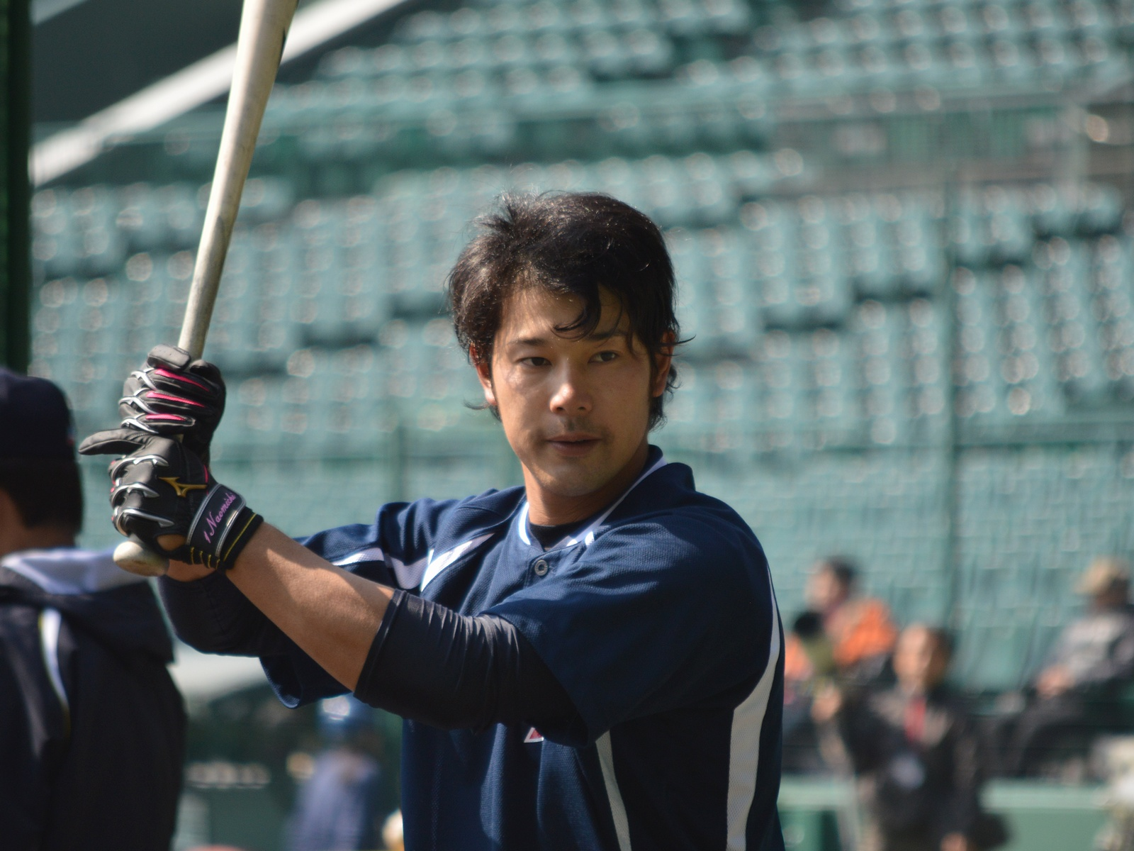 Naomichi Donoue, infielder of the Chunichi Dragons, at Hanshin Koshien Stadium.